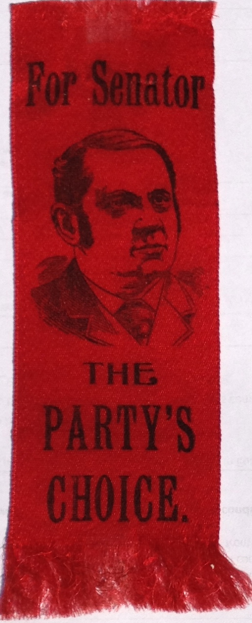 Campaign ribbon for Mark Hanna for US Senate